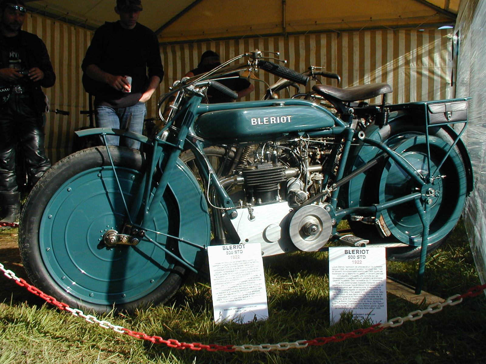 French Bleriot motorcycle 500 cm3, 1922 Picture : Gérard Delafond